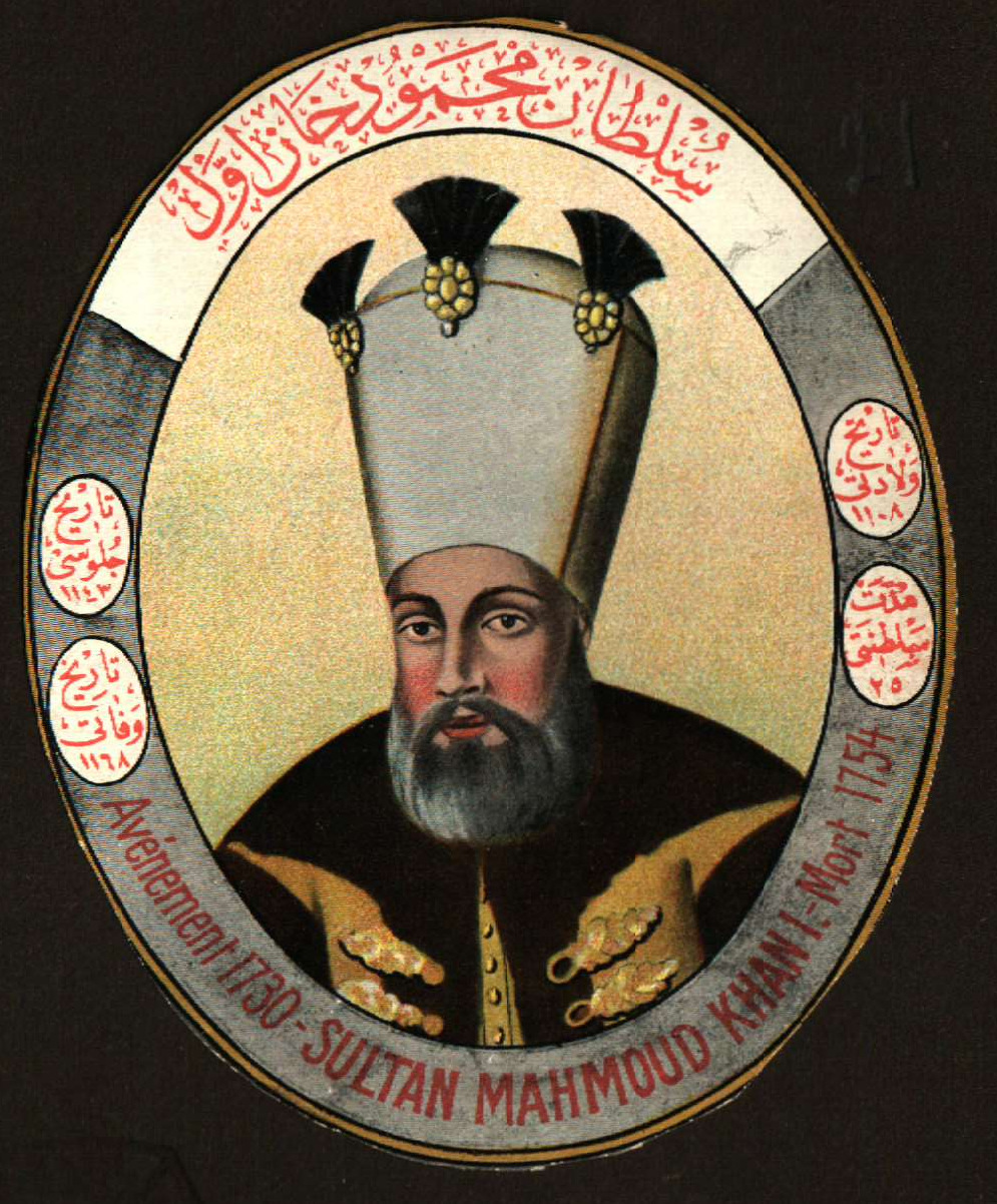 Mahmud I